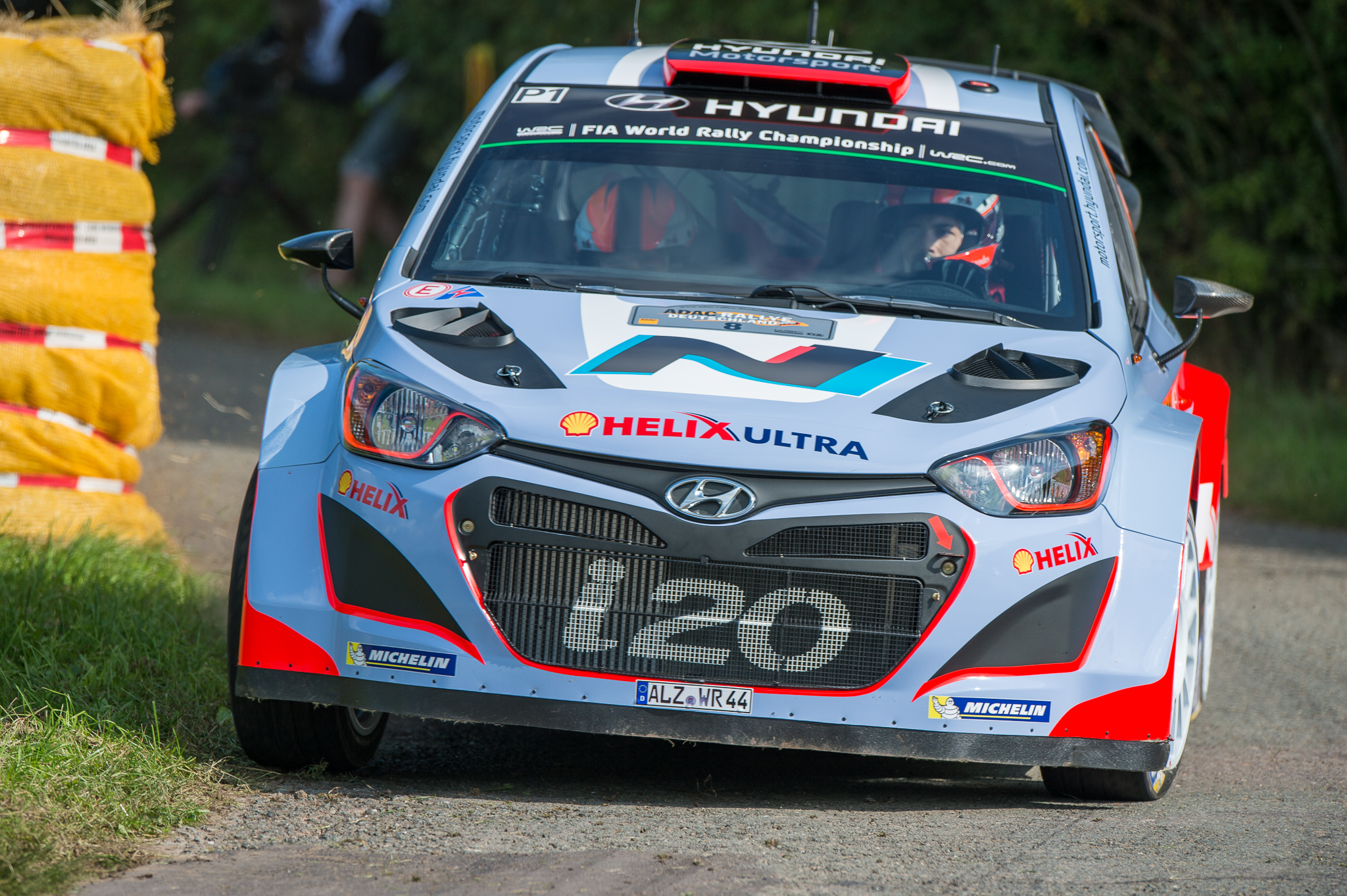 ADAC Rallye Deutschland 2014,Dani Sordo,FIA,FIA World Rally Championship,Hyundai Motorsport,Hyundai i20 WRC,Marc Marti,Motorsport,Rally,Rallye,Shakedown,WRC